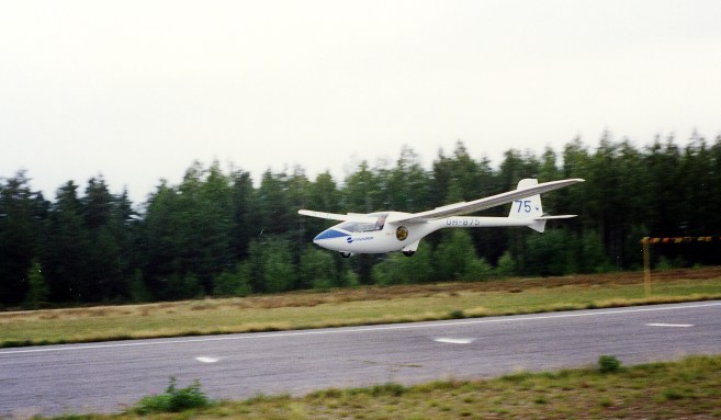 Sailplane PW-5 landing on Nummela airfield